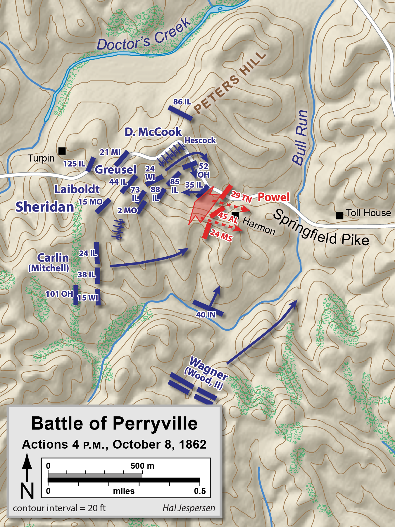 Map of the Battle of Perryville of the American Civil War